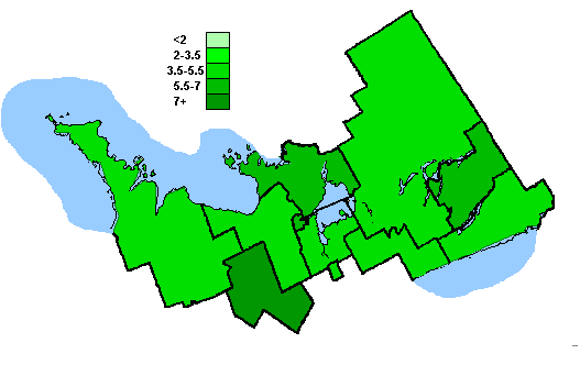 Map made by uploader (User:Earl Andrew); see [1] (question about source) and [2] (response).